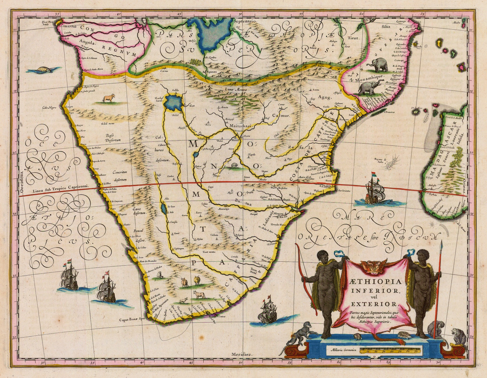 'Aethiopia inferior, vel exterior'; copperplate map from 'Theatrum orbis terrarum sive atlas novus' Published in Amsterdam.